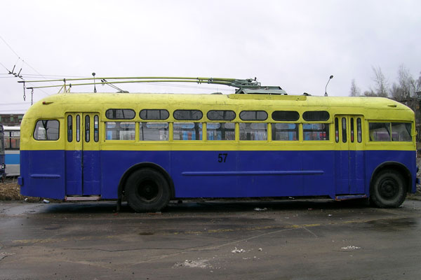 Right side view of MTB-82 [МТБ-82] trolleybus number 57 preserved in Nizhni Novgorod.